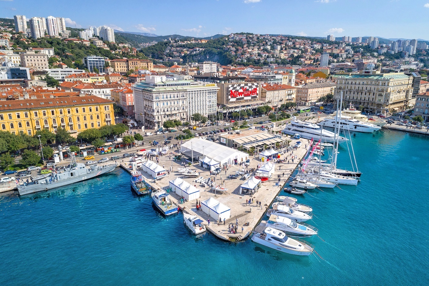 Rijeka City Center